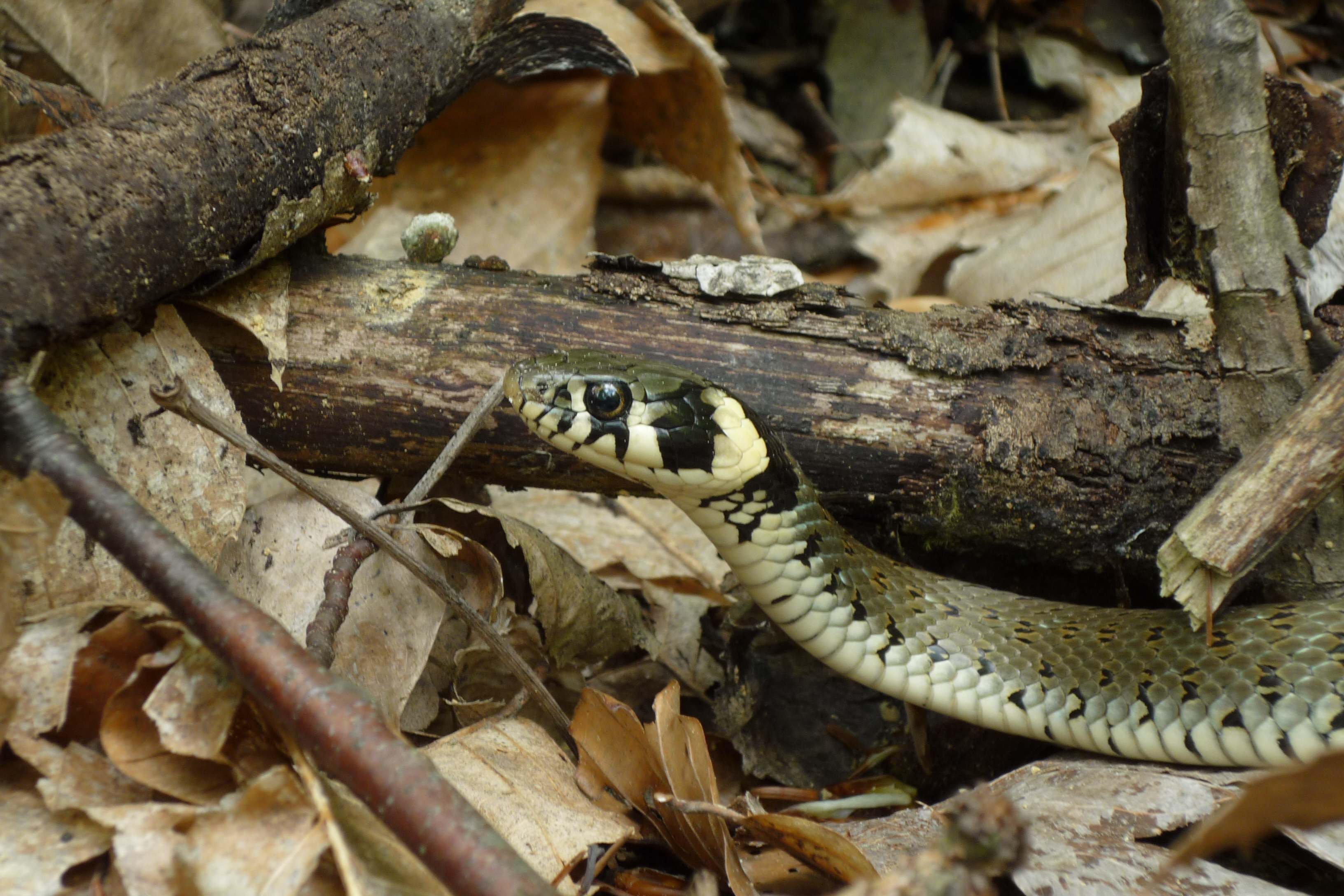 A Grass Snake in a forest near Polzela, Slovenia